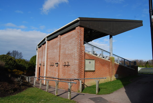 Bluemantle stand Nevill Ground. The history of this stand is given in this link 1174820